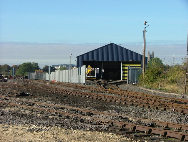 Frodingham Depot Frodingham Depot, formerly a locomotive depot, is now used by Rail Contractor VolkerRail to maintain its fleet of track machines and rail mounted cranes. Photo taken with permission while at work.